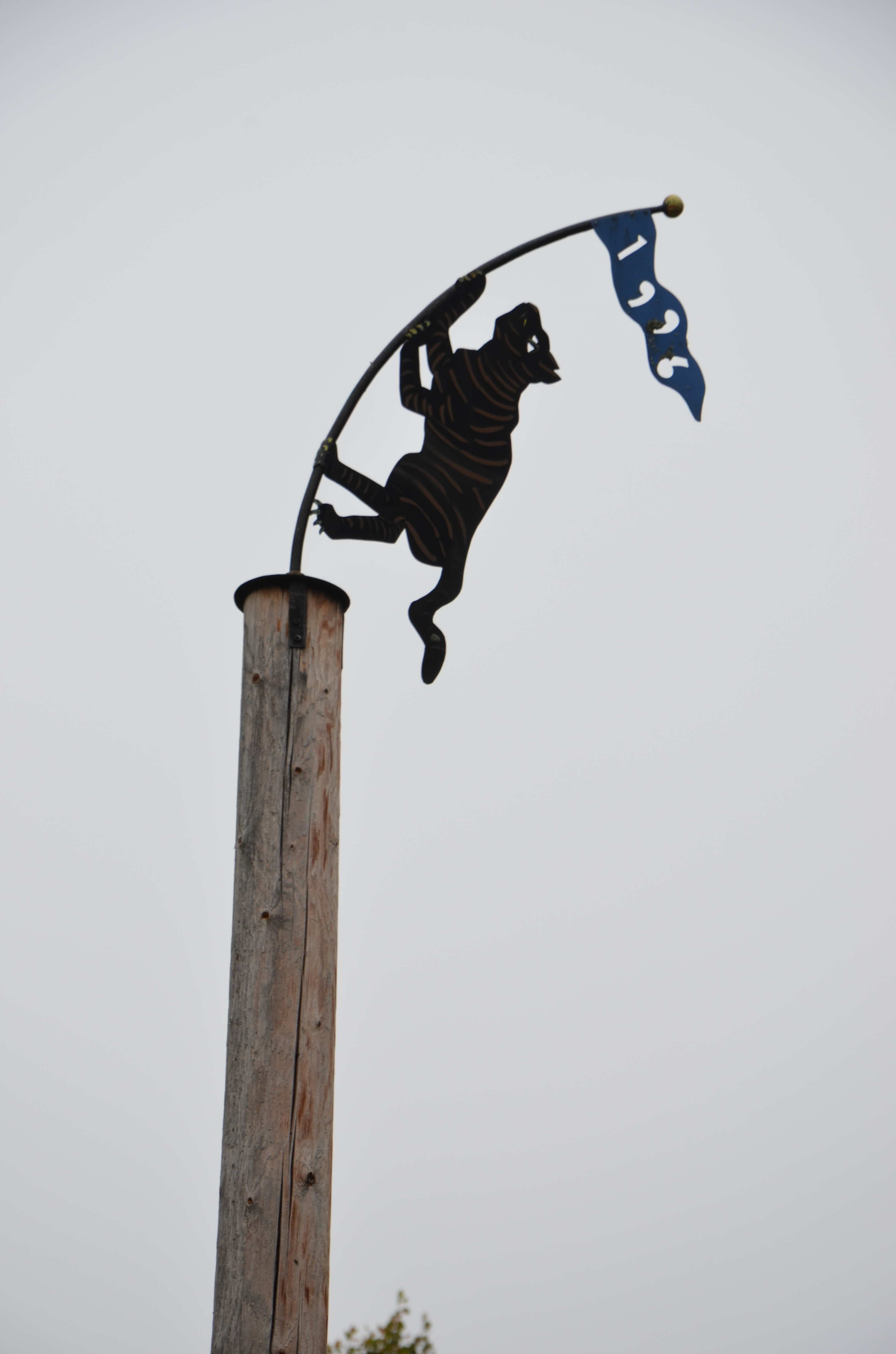 Anna Molanders Katten och fåglarna i Hällefors